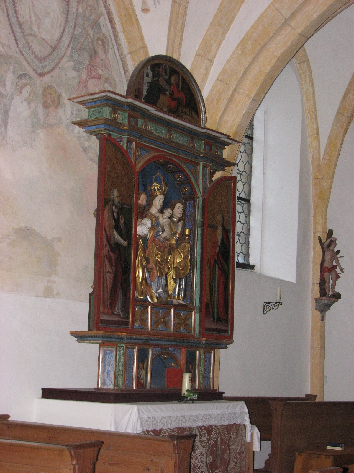 Gugg Altar at Johannishoegl